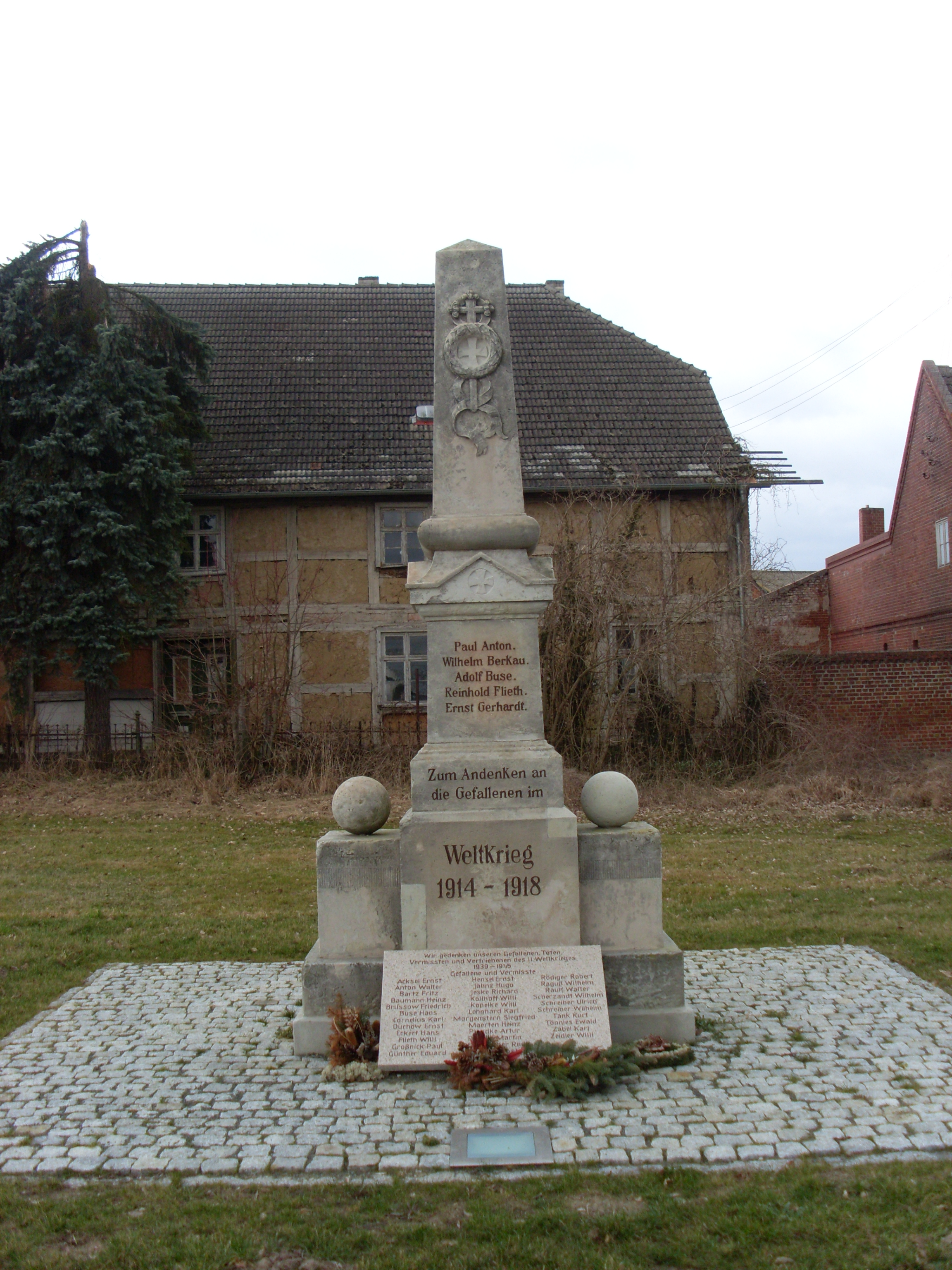 War Memorial in Schönwerder